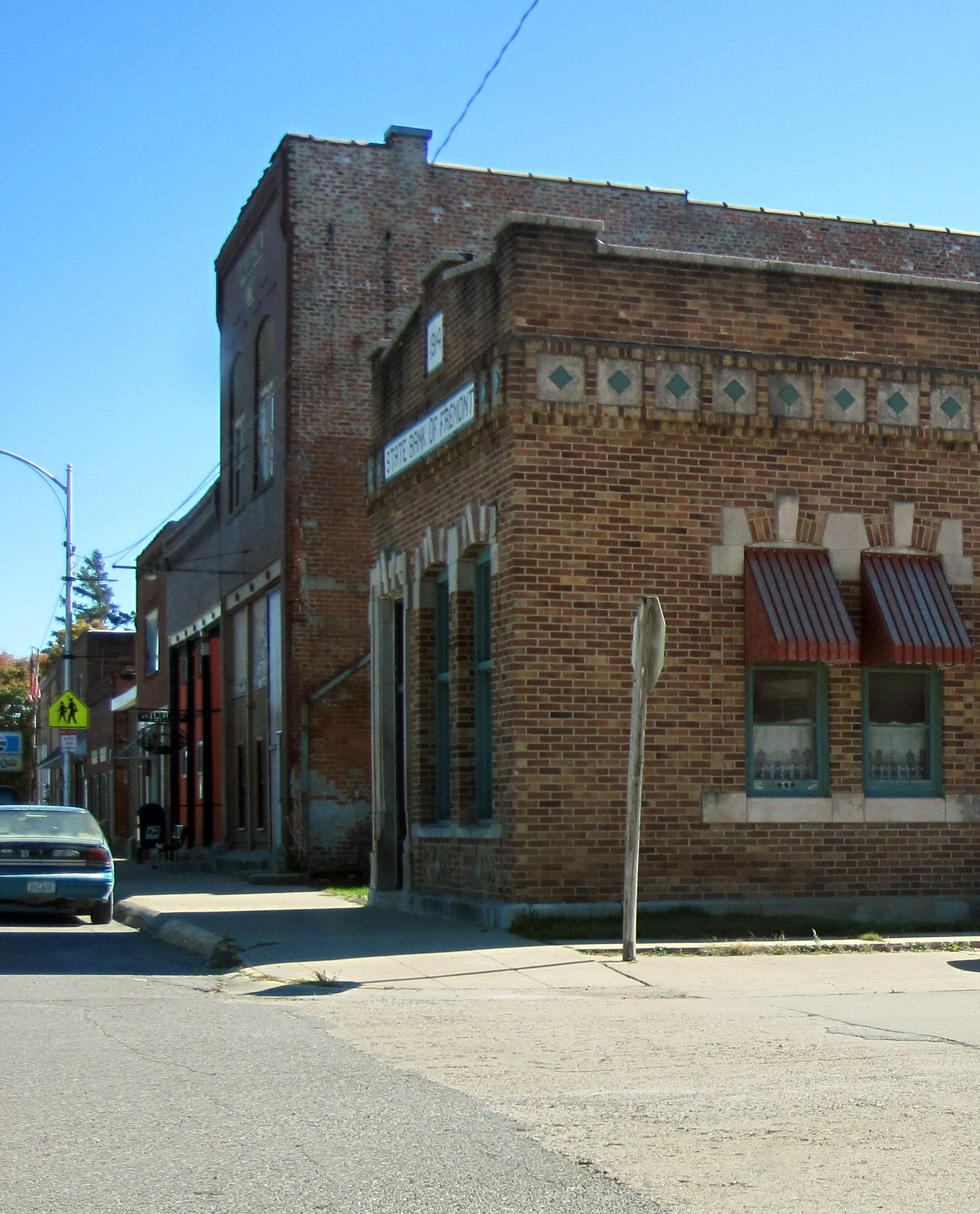 Fremont